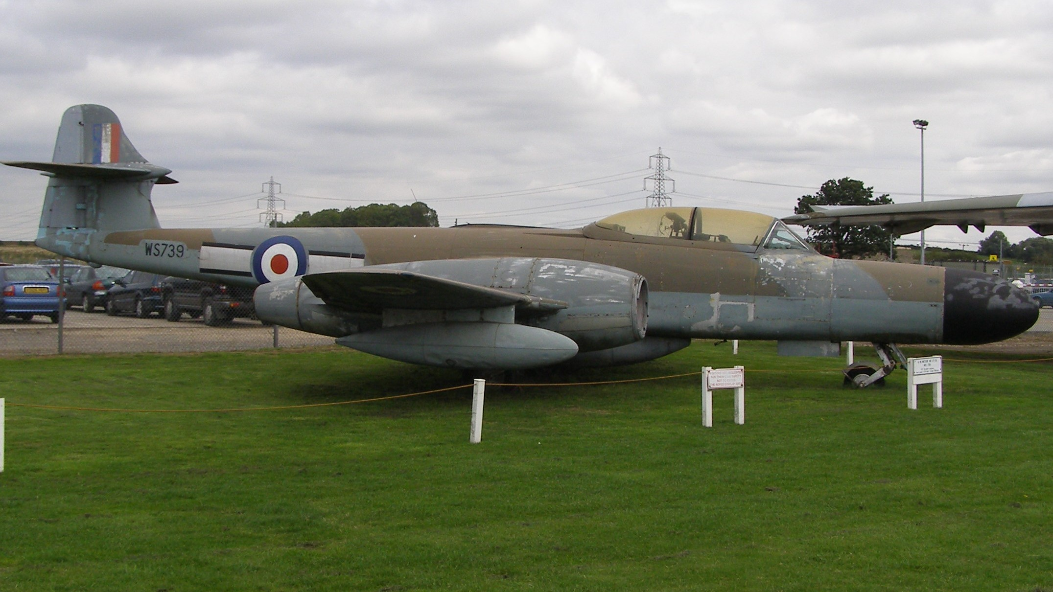 Gloster Meteor NF14 at the Newark Air Museum, England